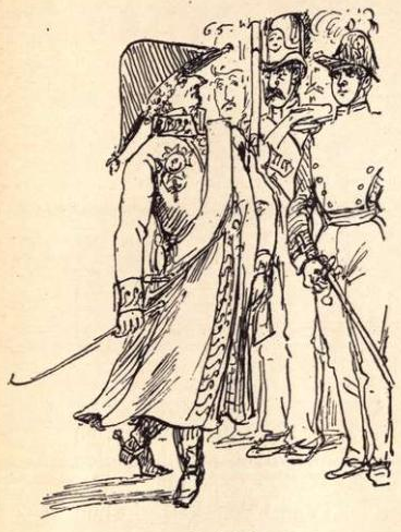 Caricature of king Charles John of Sweden and Norway.